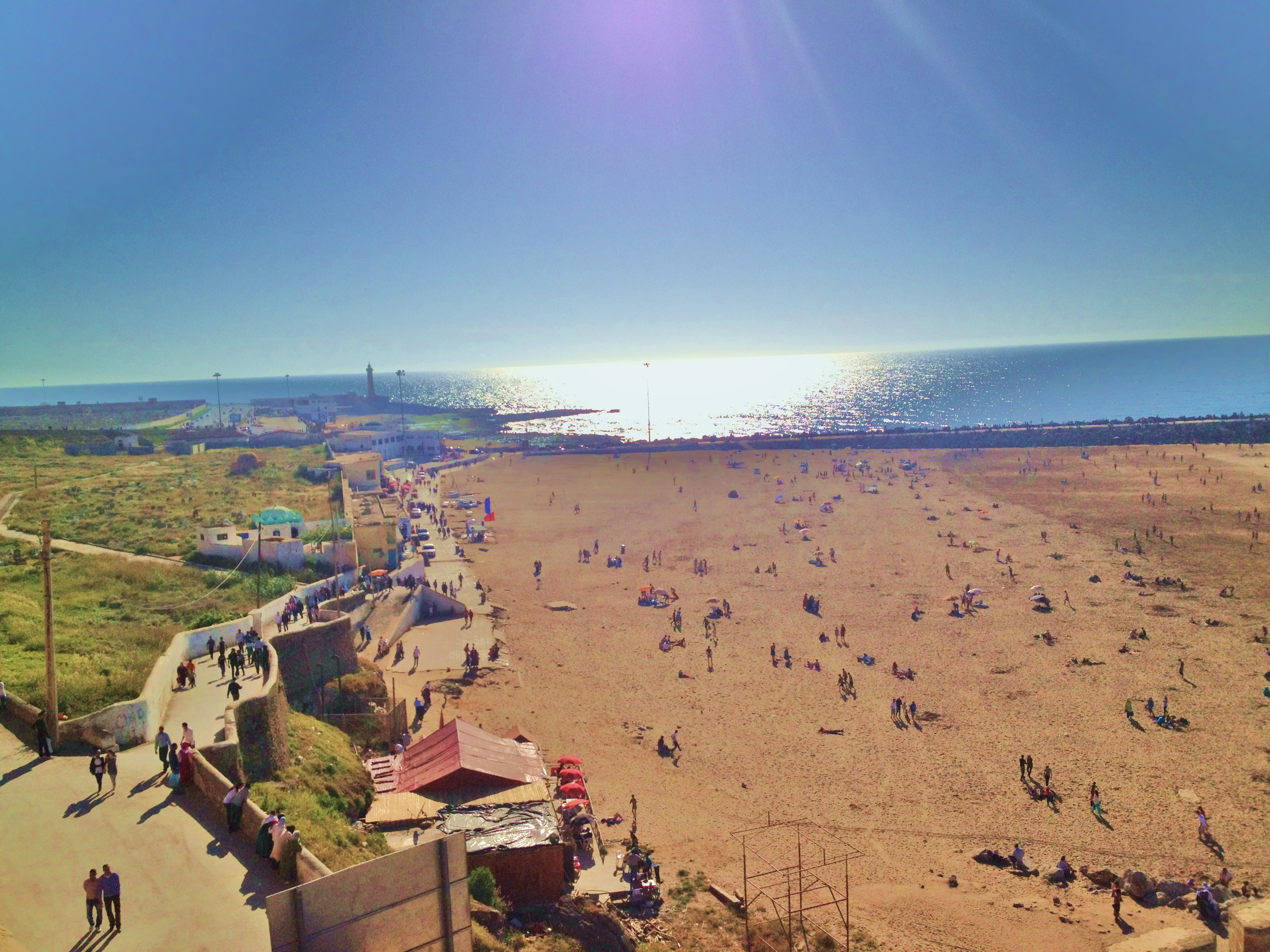 Kasbah of the Udayas_ Rabat Morocco